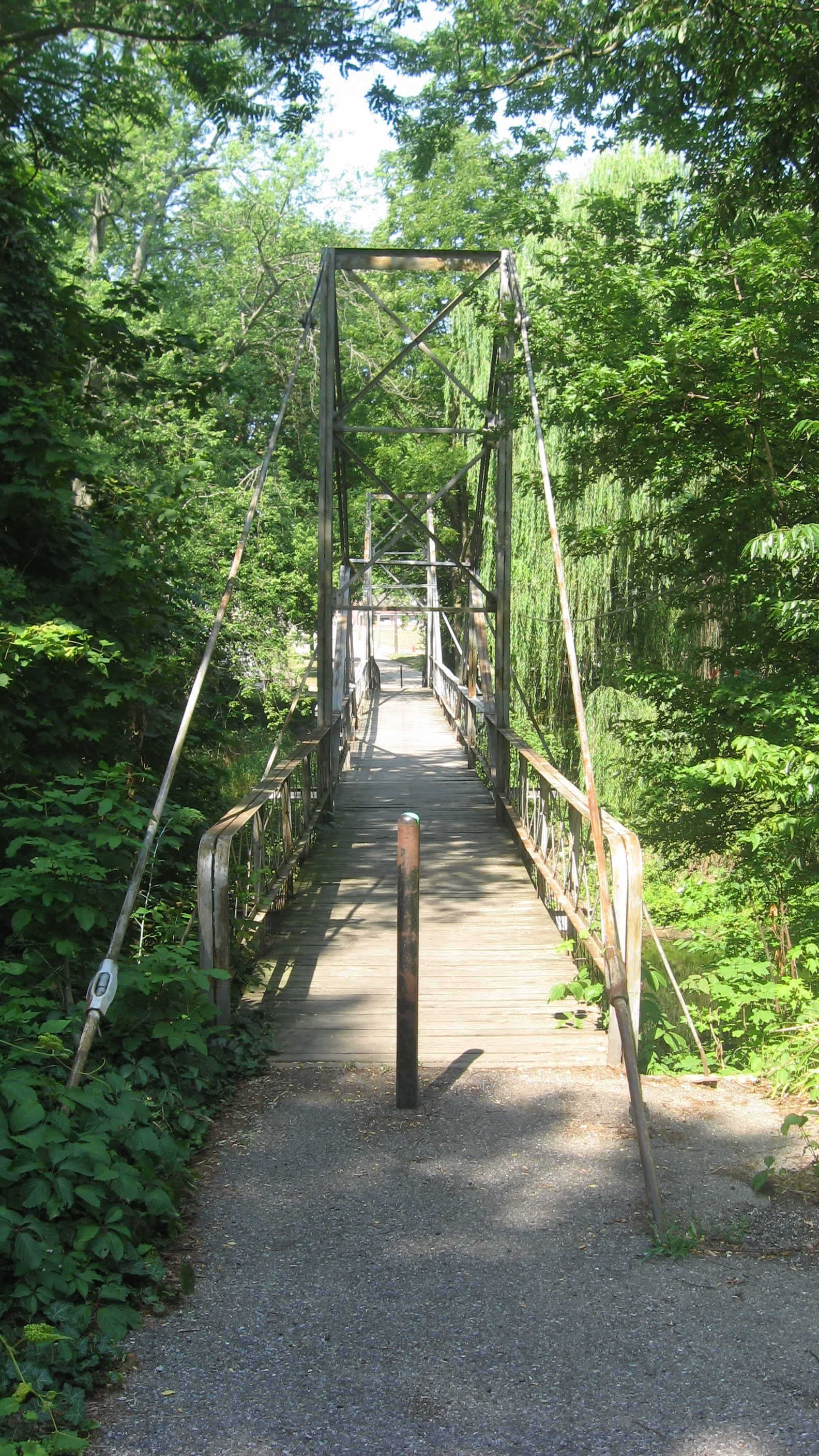 Eastern portal of the East Laporte Street Footbridge, which spans the Yellow River in Plymouth, Indiana, United States. Built in 1898, it is listed on the National Register of Historic Places.